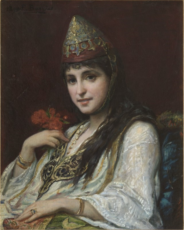 "Jewish Woman Wearing a Hennin", Félix Barrias, 1890